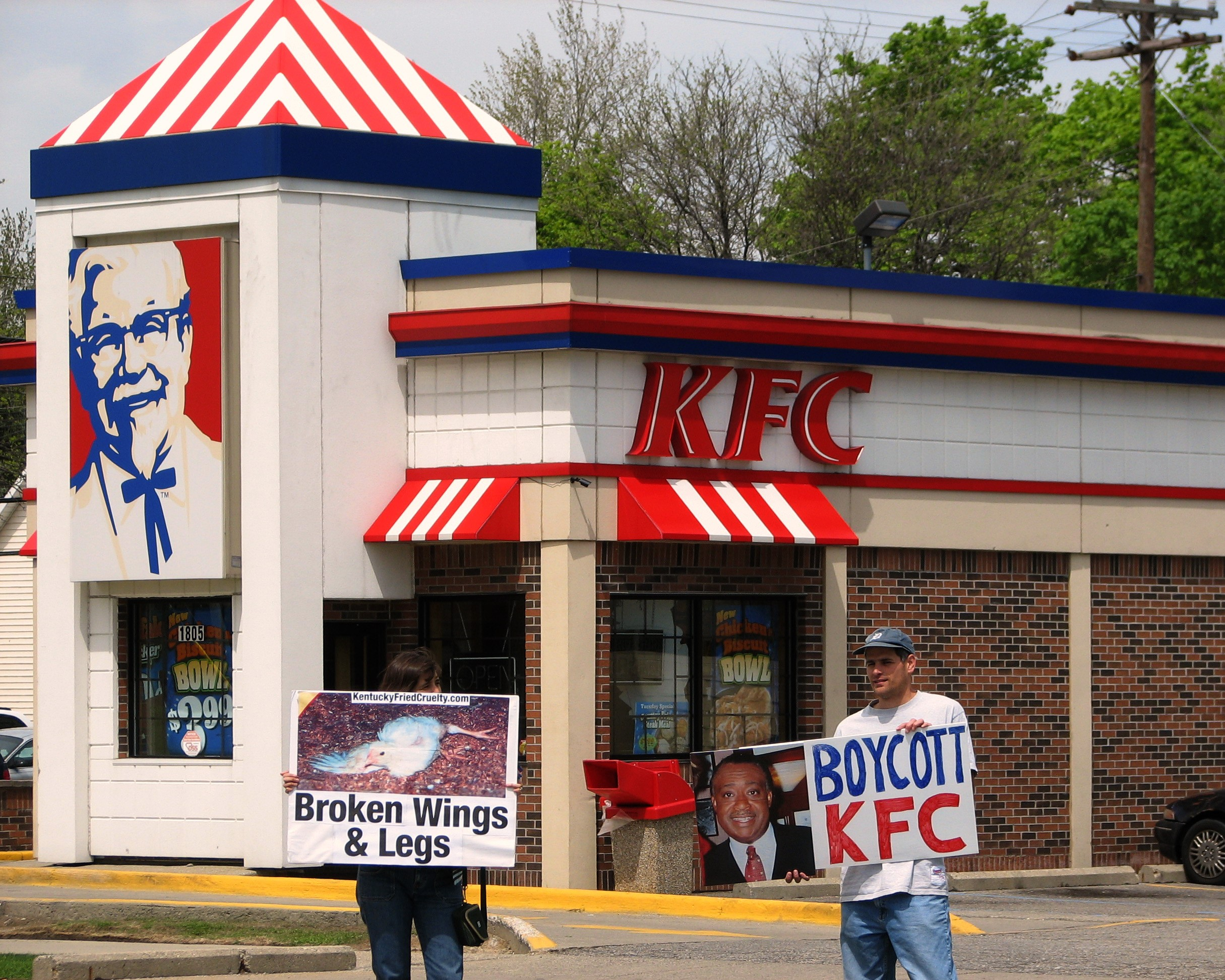 protestors outside a KFC restaurant in Royal Oak, MI, May 5, 2007